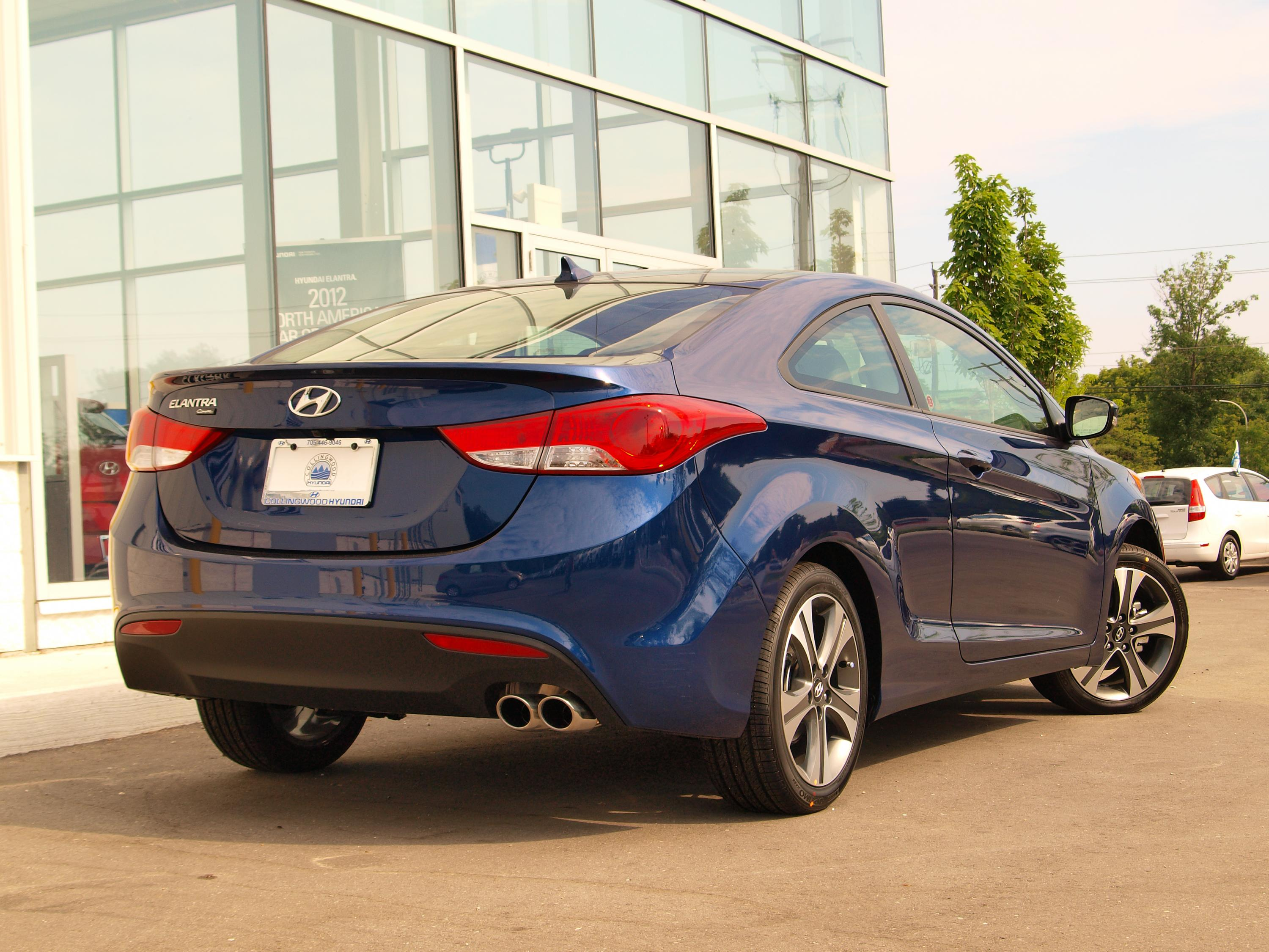 Hyundai has now added a coupe version of their Elantra to their line up. Very nice!